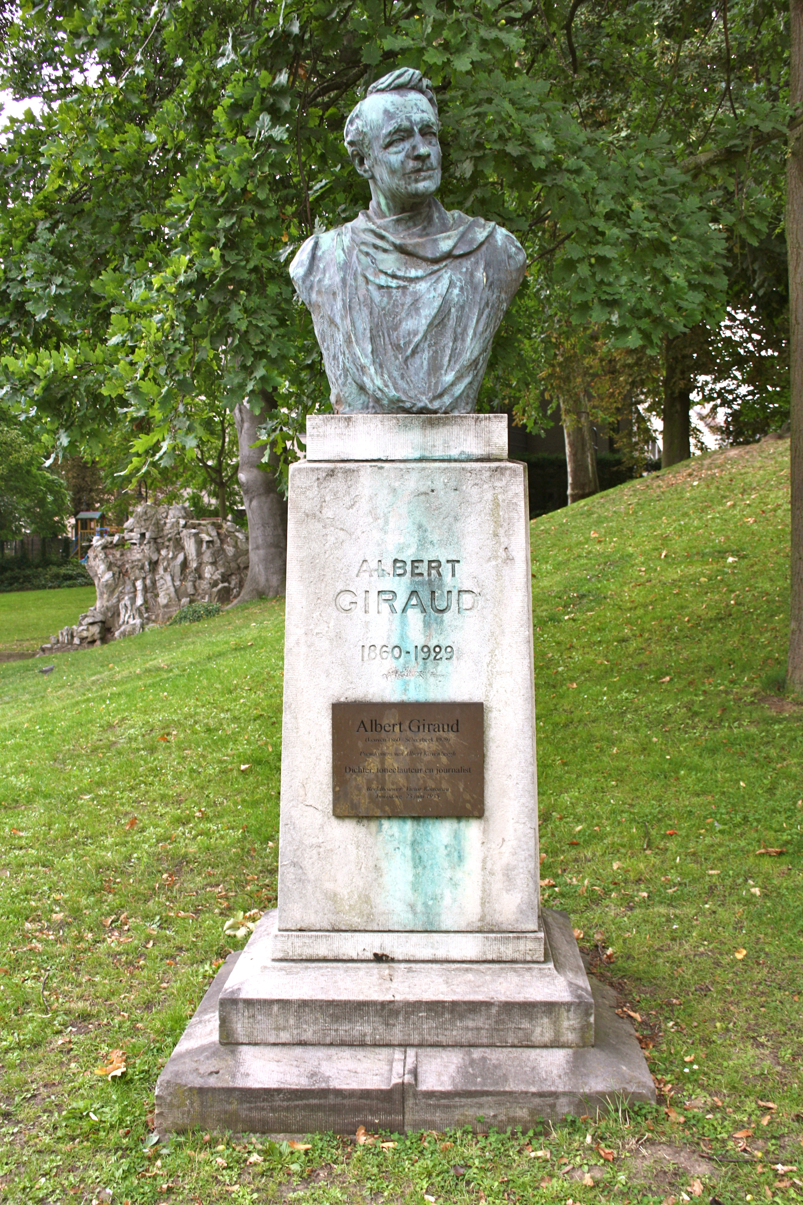 Bust of Albert Giraud at Sint-Donatuspark, Leuven. Sculpture by Victor Rousseau (1865-1954).